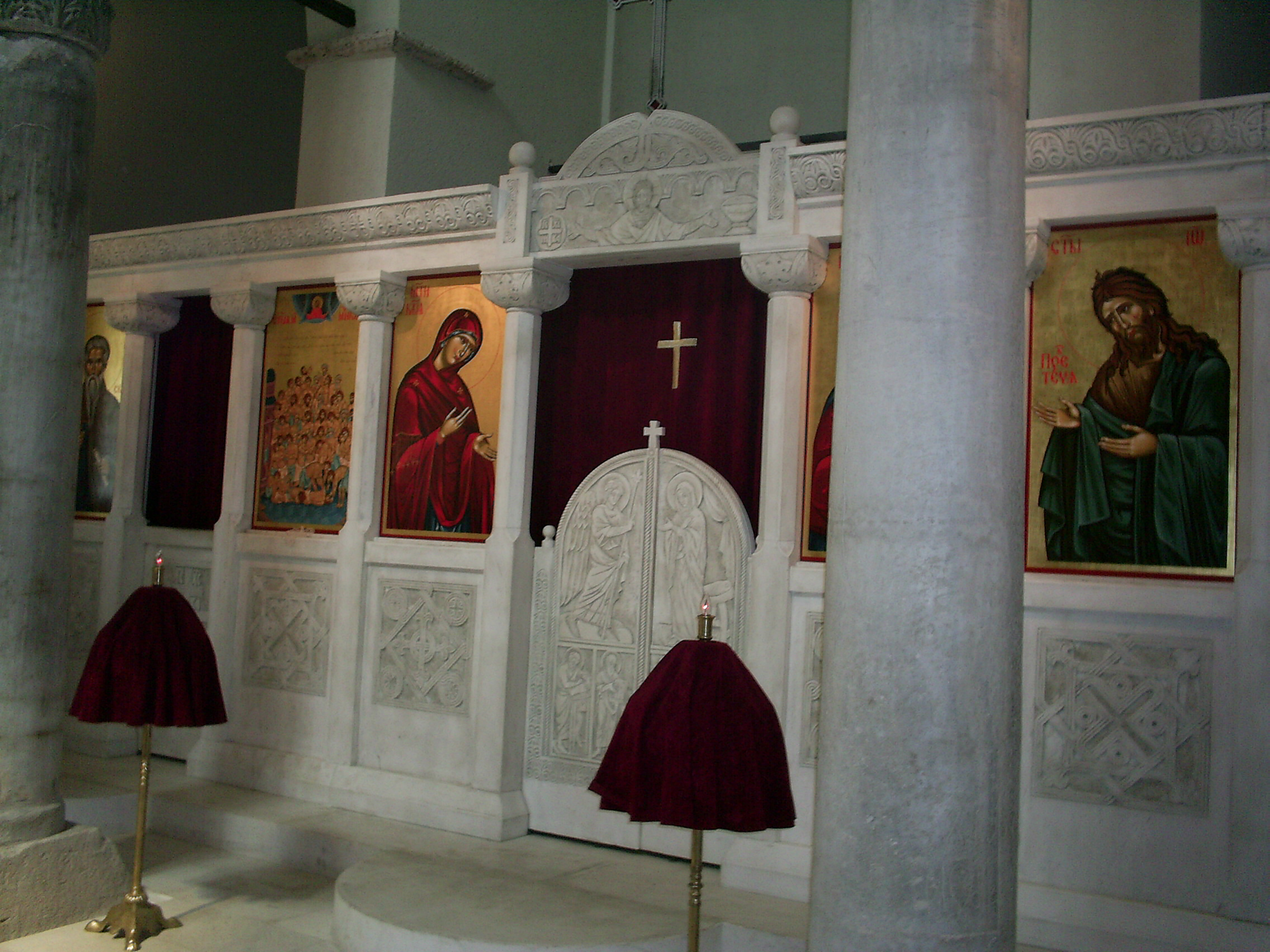 Iconostasis of the "Forty Martyrs" Church in Veliko Turnovo, Bulgaria